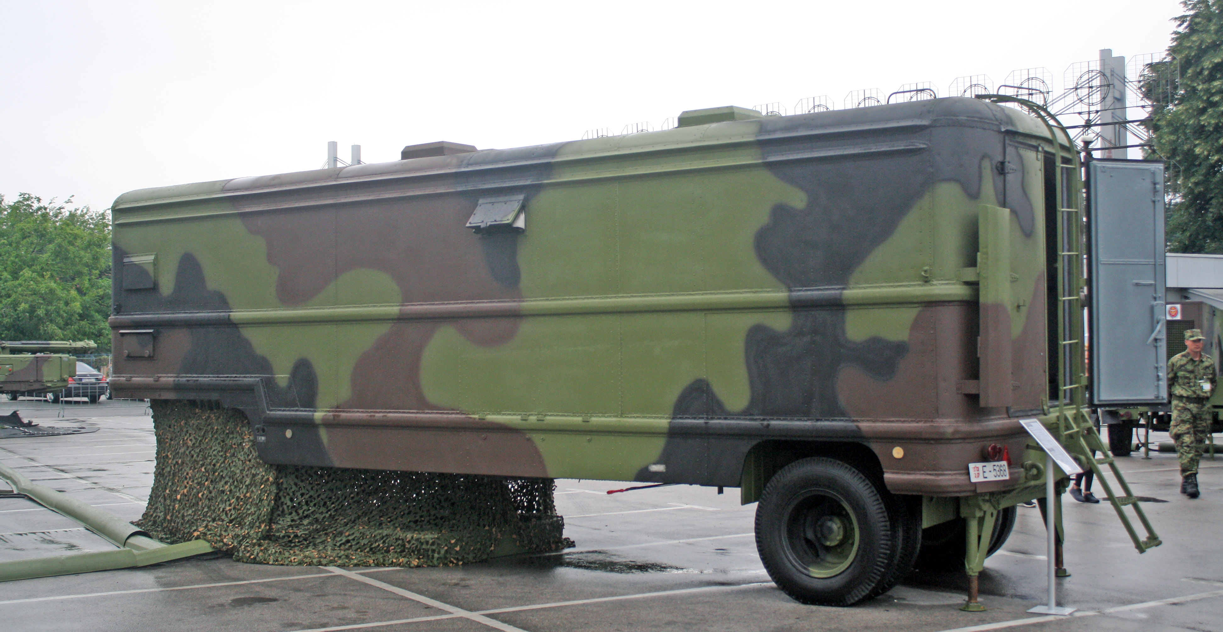 Missile guidance station 5S99 of S-125 Neva air defense system from 250th Air Defense Brigade of Serbian Army on display at "Partner 2015" military fair.